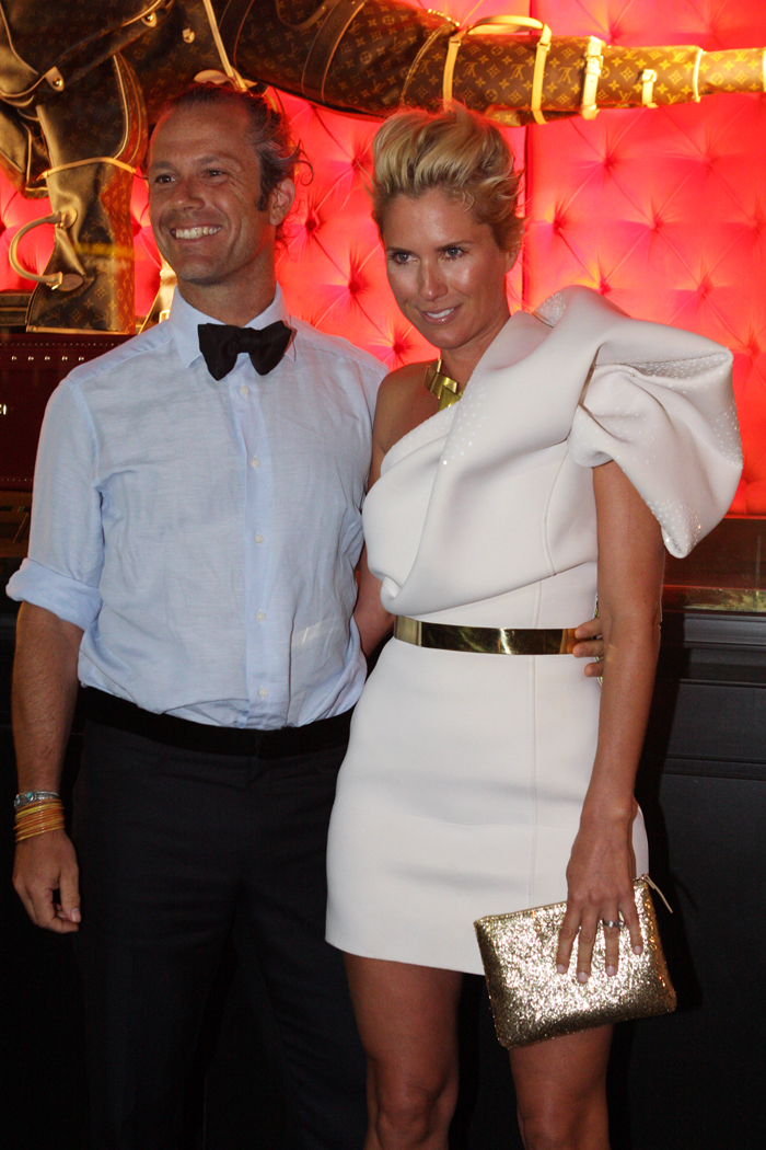 Designer Sarah-Jane Clarke and husband Daniel Baffski [1]. On December 2, 2011 luxury brand Louis Vuitton opened a new store (Louis Vuitton George Street Maison) in Sydney, Australia, and this was followed up in the evening with a VIP party with an amount of celebrities and other VIPs attending, along with about 30 media personnel covering the black carpet outside the building.